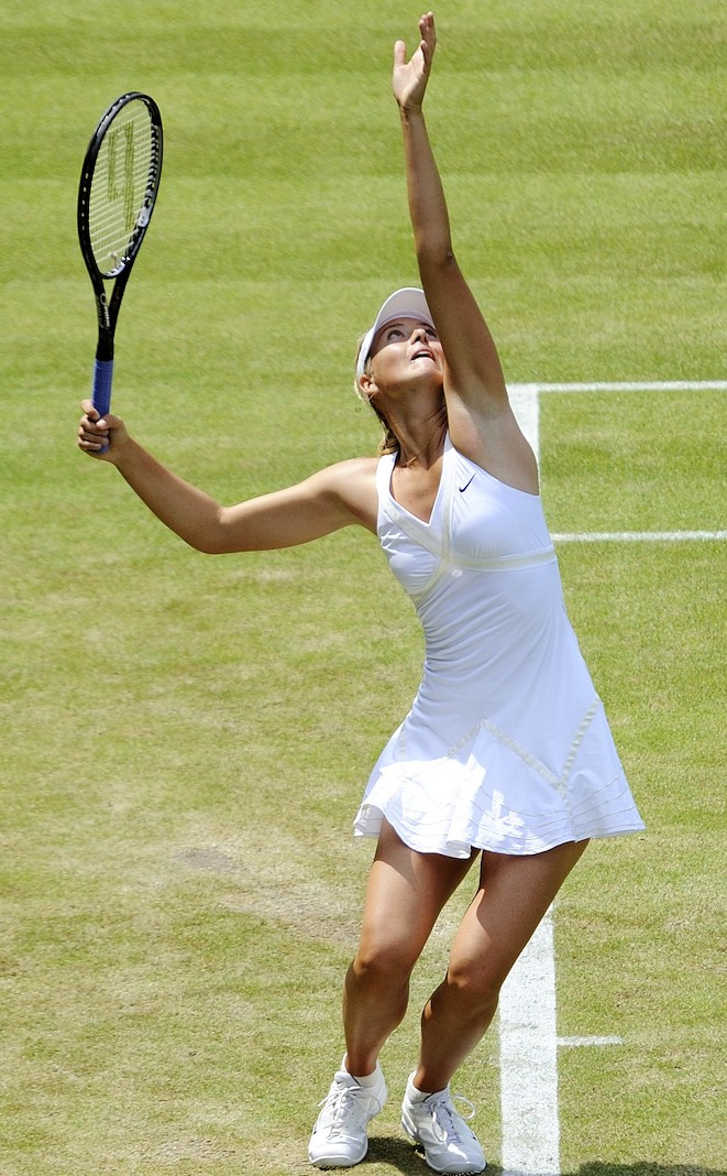 Maria Sharapova against Gisela Dulko in the 2009 Wimbledon Championships second round